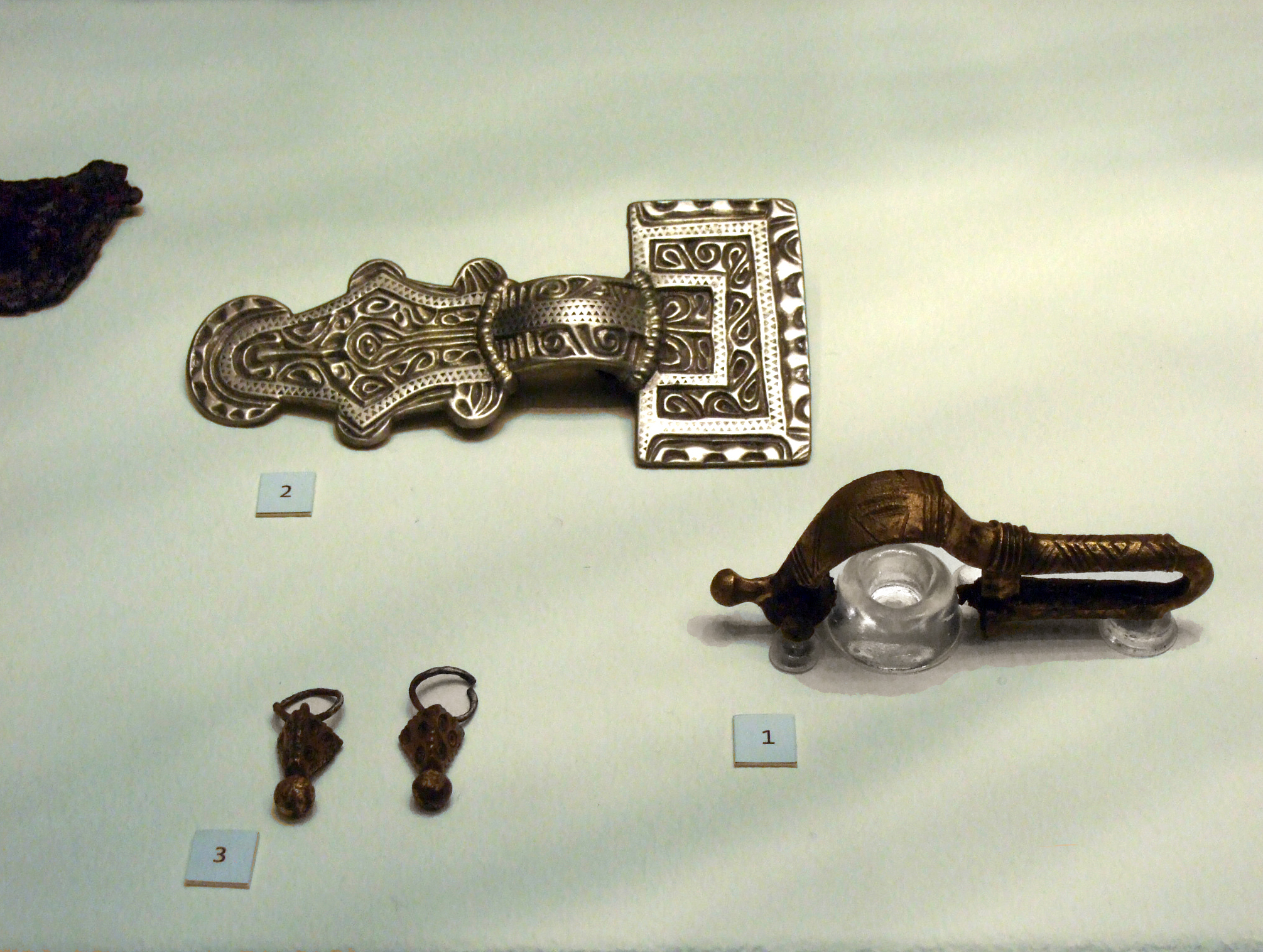 Goods from a girl's grave in the cemetery of Kölked-Feketekapu A Baranya County, Hungary The cemetery of Kölked-Feketekapu comprises 695 corpse burials. Additional richly endowed grave groups have come to light at a remove of about 200 meters (Kölked-Feketekapu B). On the basis of the cultural diversity manifest in the costume components (Germanic, Avar, and Byzantine artifacts), the cemeteries of Kölked-Feketekapu are counted among the most interesting early medieval sites of the entire southern European area. Grave 438 Girl's grave. As an adornment, she wore a pair of pyramidal earrings. Her gown was held together at the chest by a fibula with a bent-back foot and in the waist area by a pair of bowed fibulae. 1. Bronze fibula. 2. Cast silver bowed fibula of the type Nocera Umbra. 3. A pair of pyramid-shaped earrings. At each of the pyramid tips a massive ball. The sides of the pyramids are decorated with punched circular eyes. Photographed while on display from 22 August 2008 to 11 January 2009 in the exhibition "Die Langobarden. Das Ende der Völkerwanderung" at the Rheinisches LandesMuseum Bonn. On loan from the Hungarian National Museum, Budapest.